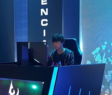 Neeb at 2018 WCS Valencia